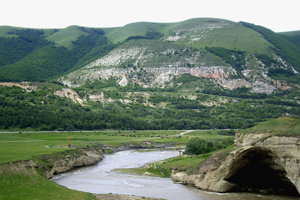 River Zelenchuk near the village Zeyuko